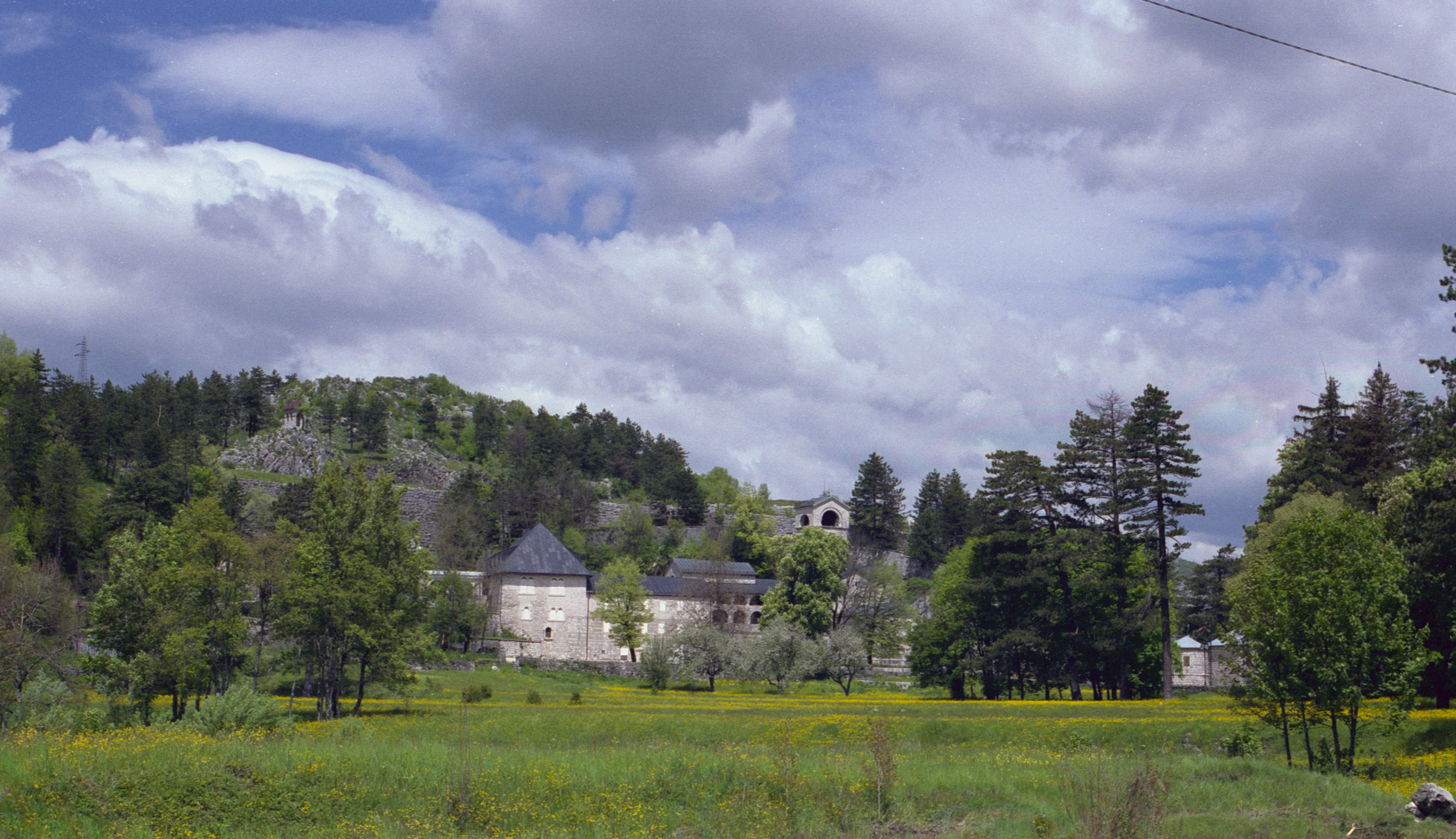 A monastery in Cetinje, Montenegro